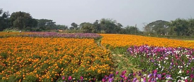 place